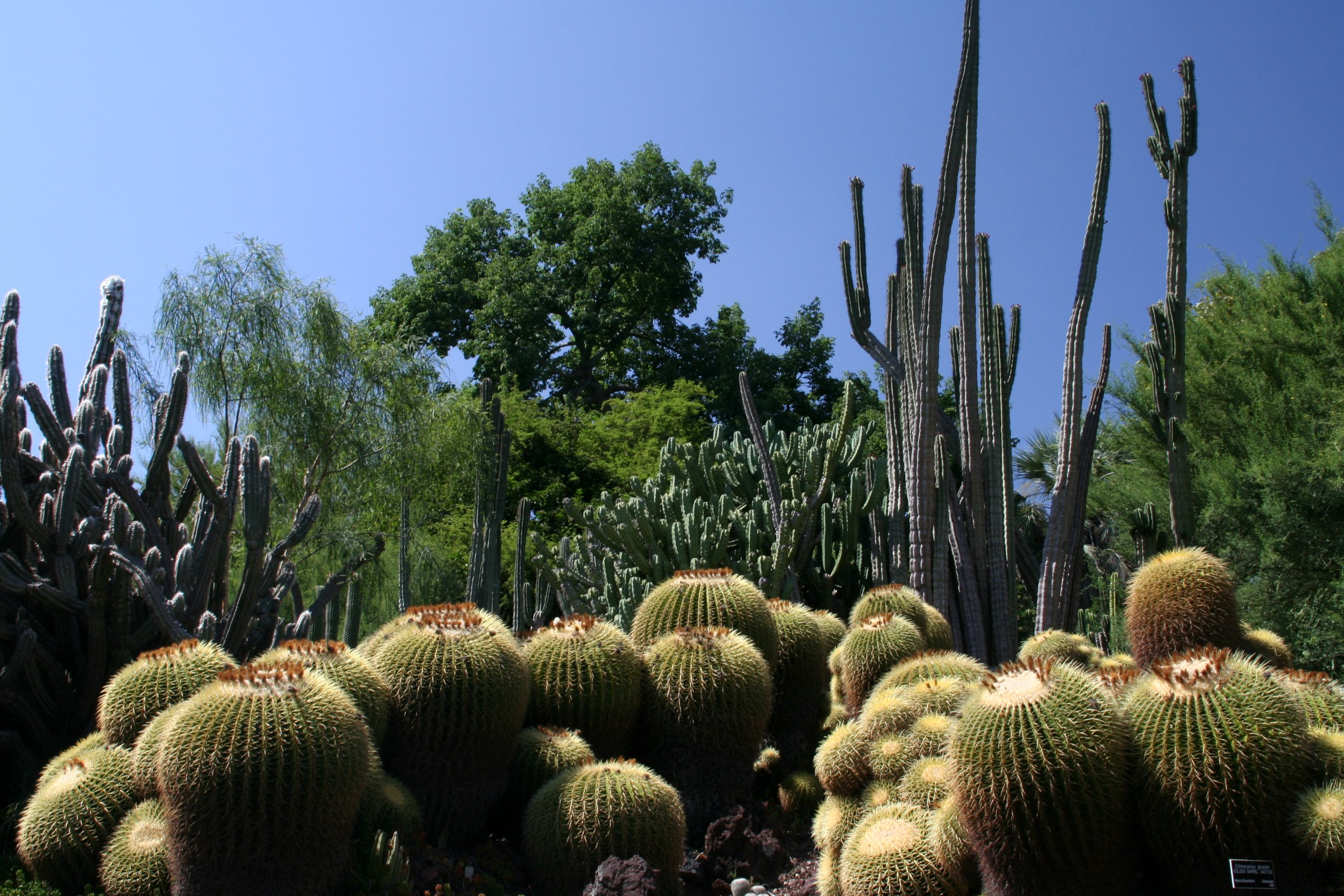 Desert Garden. Mature Golden Barrel cacti with columnar Cereus cacti from South America.